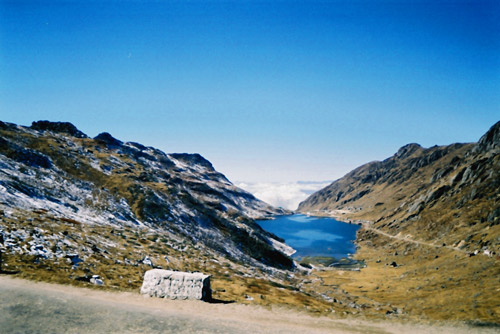 Tsongmo Lake in East Sikkim, Sikkim, India situated at around 10,000 feet above sea level. Picture clicked by me Nichalp on December 12, 2004